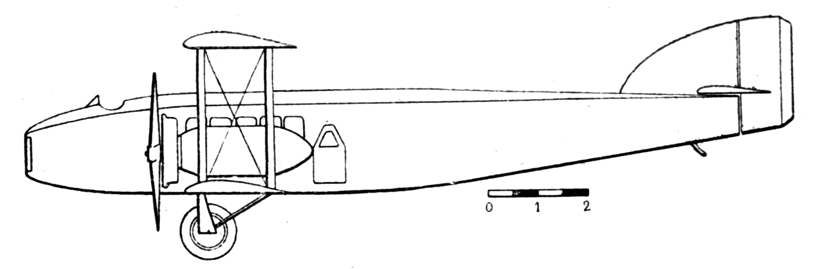 Bleriot 165 side drawing from L'Aéronautique December,1926